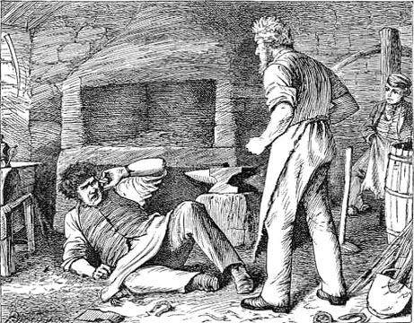 Great Expectations, chap. 15 : Joe and Pip fighting in the coal cellar, by F.A. Fraser.